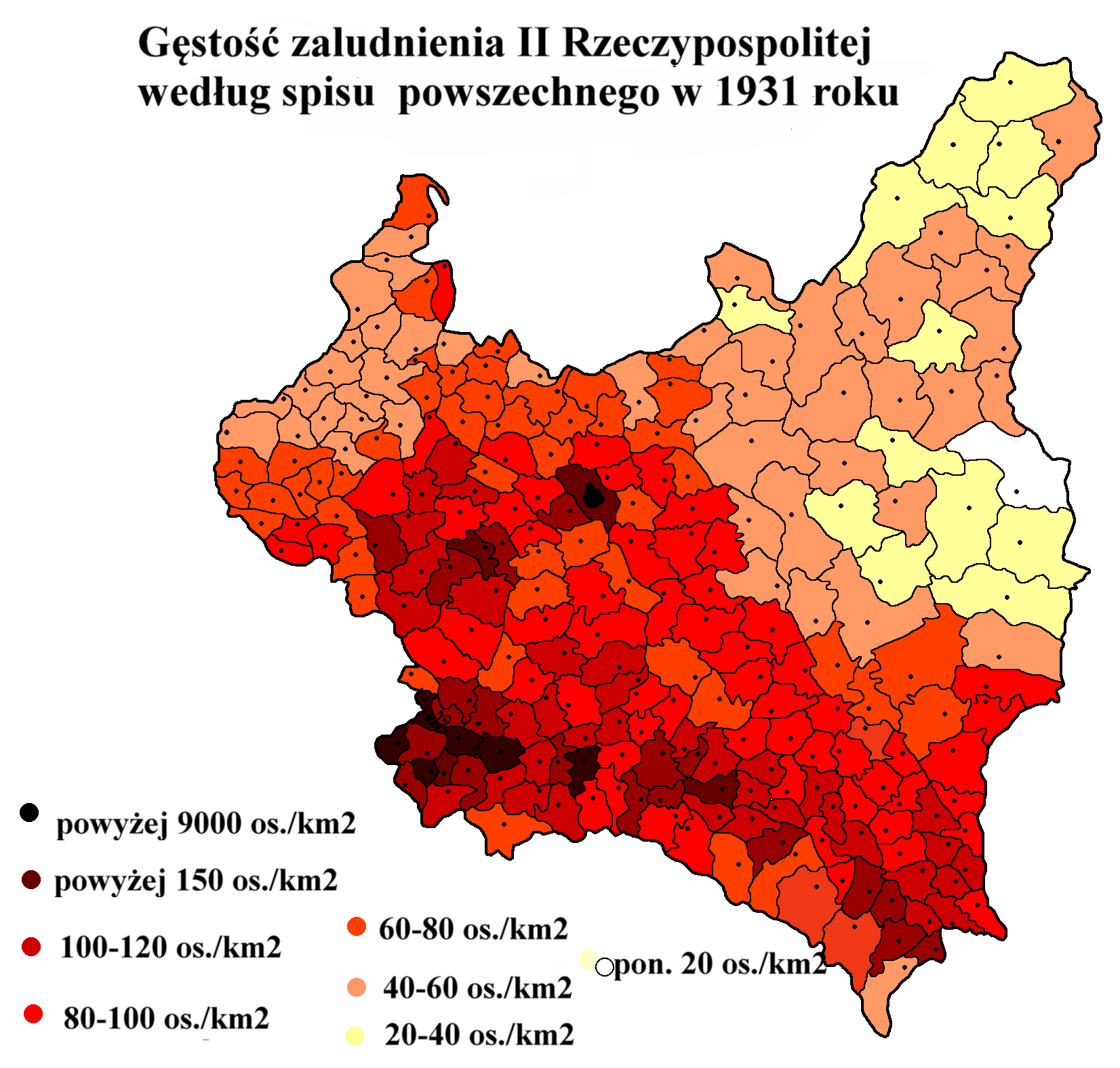 Population density of the Second Polish Republic according to the census in 1931